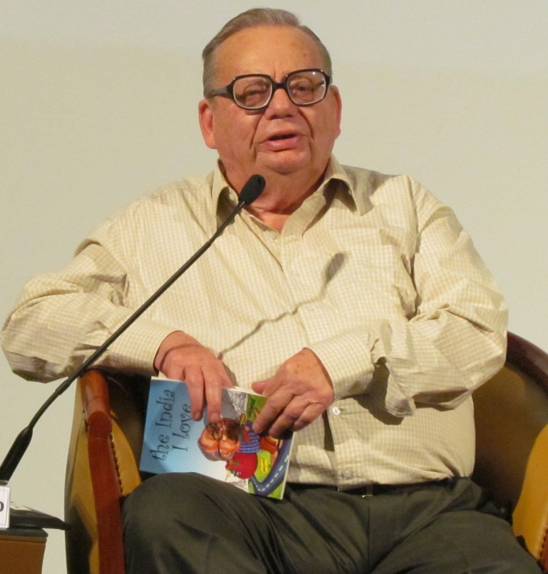 Indian writer Ruskin Bond